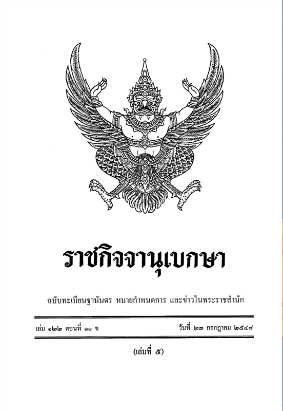 Front cover of Royal Thai Government Gazette, a book collecting of Thai government's notices, laws and so on. Notice that this version is ordinary version, hence Garuda image is black-colored. (See Image:Thai Garuda emblem.png for colored version taken from special edition) According to Thai Copyright Act, 1994, The document itself is not eligible for copyright, hence it is in public domain. But the usage of some content is governed by law other than copyright.